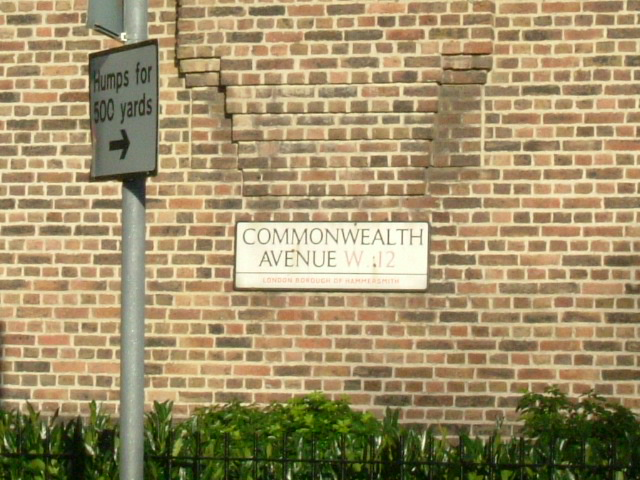 Commonwealth Avenue, W12